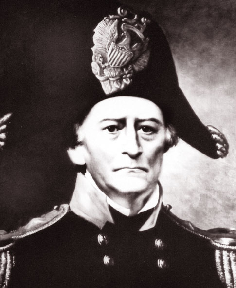 Thomas Lawson (1789-1861), Surgeon General of the United States at the onset of the Civil War.